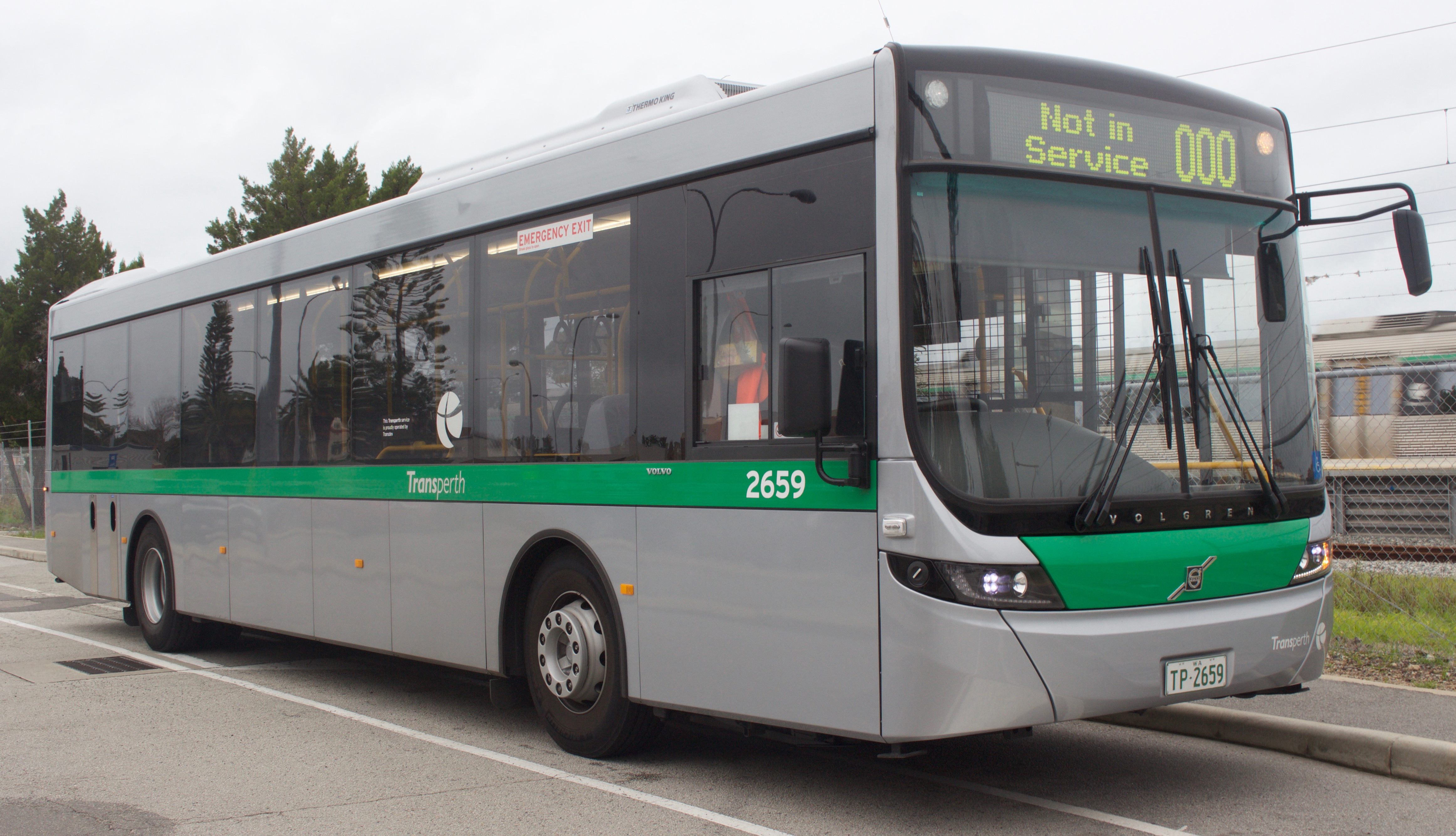 Volgren Optimus bodied Volvo B7RLE (built: 2017) operating for Transperth (Transdev) in Fremantle, Western Australia. This exact bus I got to take a personalised tour inside